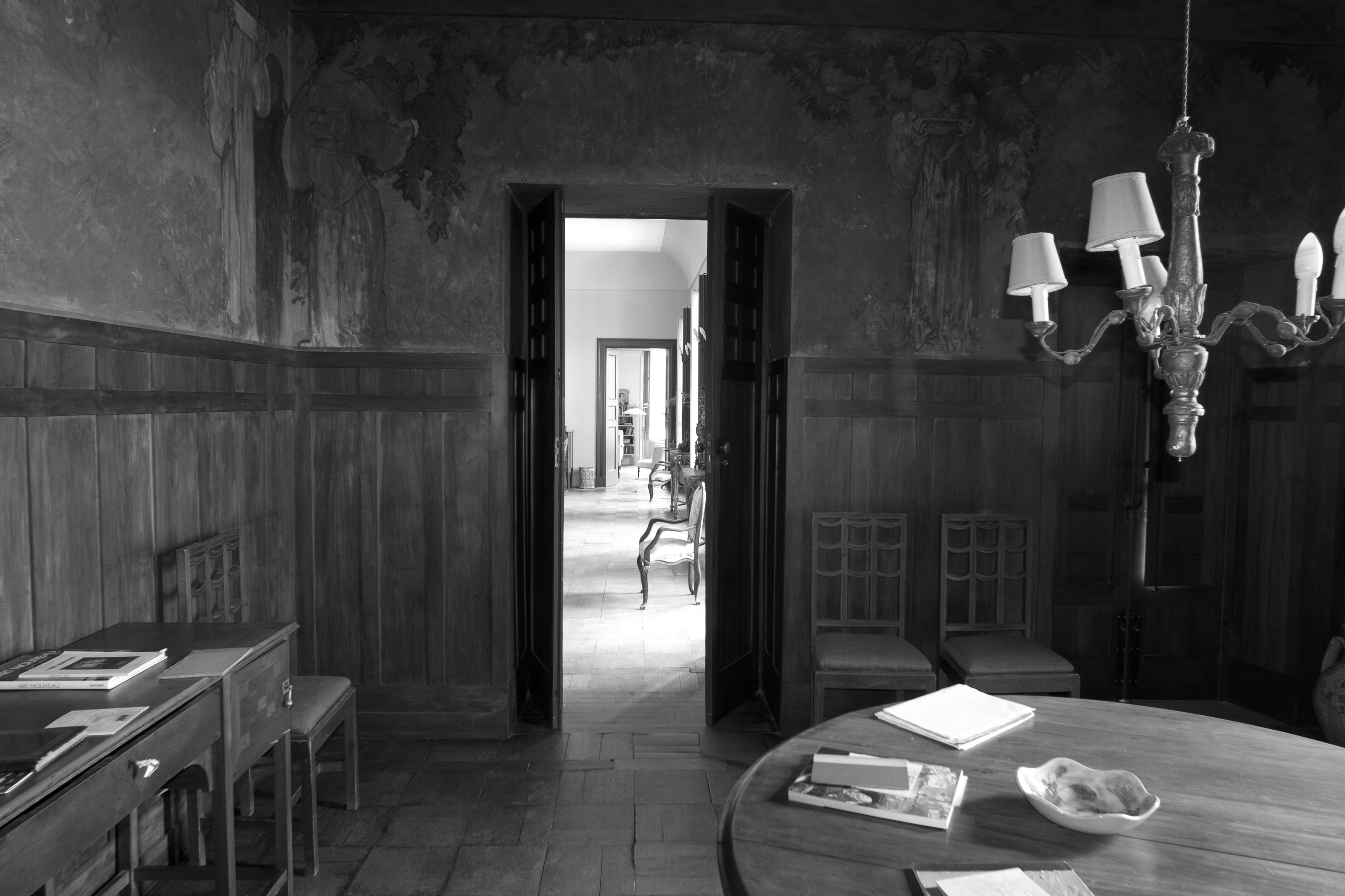 Descrizione interni di Casa Cuseni